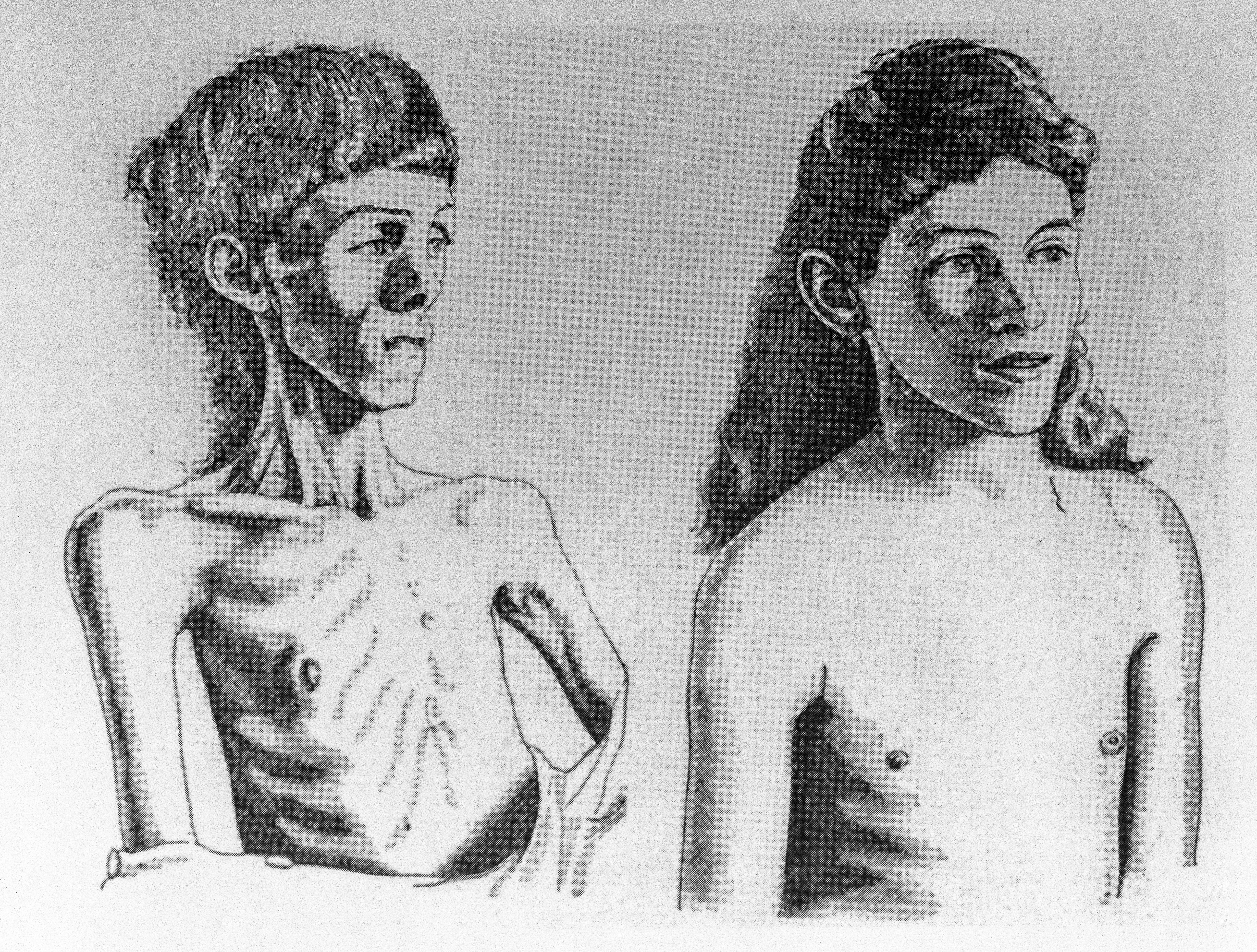 Two 'before and after' portraits of young girl with the condition anorexia nervosa. John Ryle, "Anorexia Nervosa", Lancet, Oct. 17, 1936. pp. 893-96 Wellcome Images Keywords: Anorexia Nervosa; John Ryle